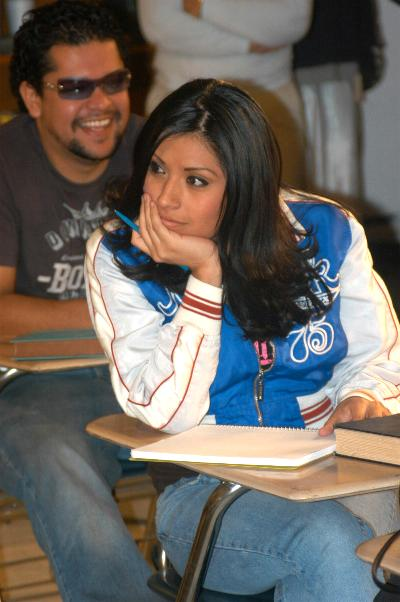 Lena Juliette On Set With Da Vinci Load From Hustler Video.